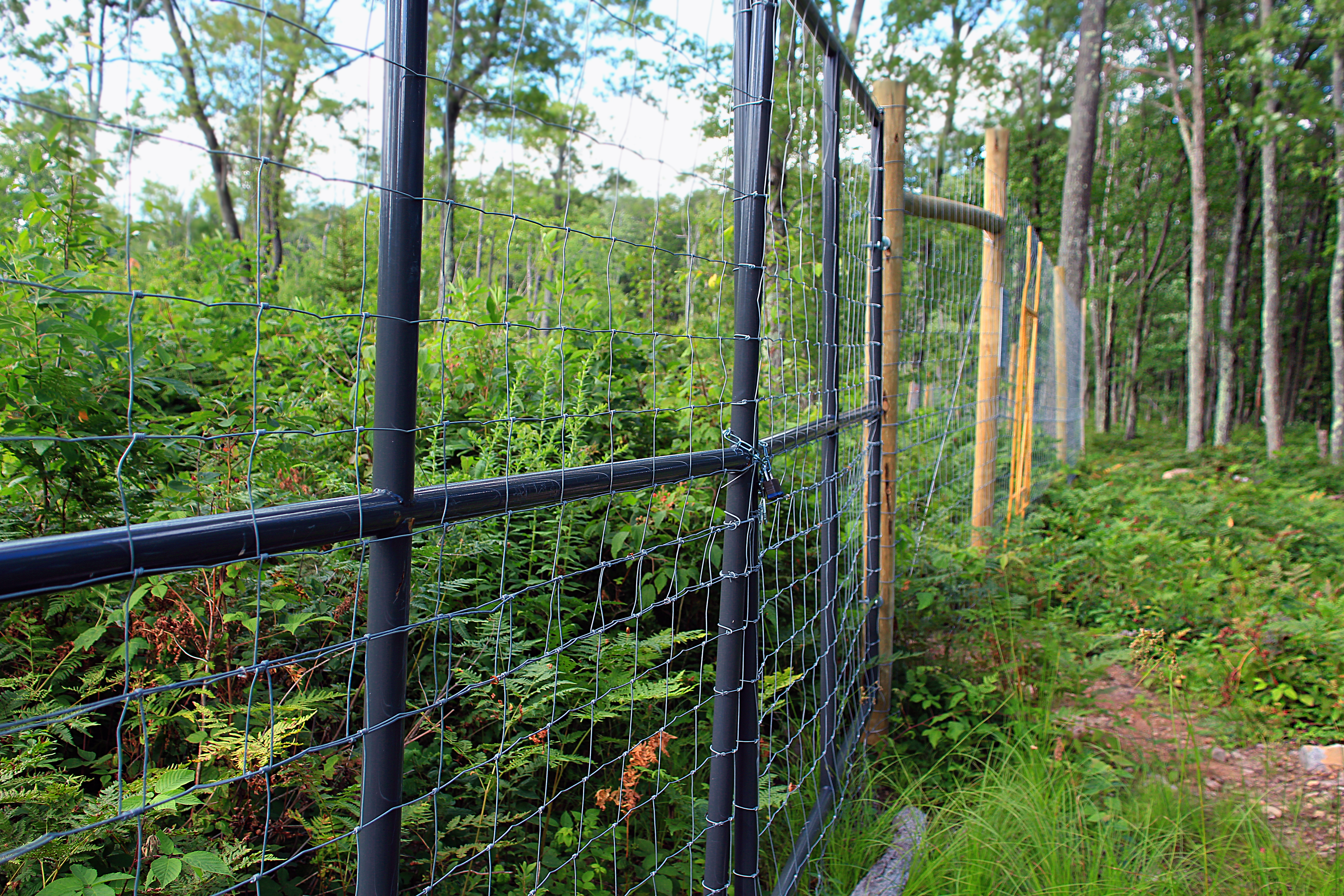 Deer exclosure fence, Pinchot State Forest, Lackawanna County. The state Department of Conservation and Natural Resources, or DCNR, fences off tracts of land that it has logged. By excluding deer, the fences permit the forest to regenerate. Note the differences on each side of the fence. Inside the fence is a riot of undergrowth; outside, mostly heaths, hay-scented ferns, and other vegetation that deer find unpalatable. Fortunately, this paucity of undergrowth isn’t found everywhere in the forest. The stream corridors and wetland areas, for instance, have rich undergrowth.